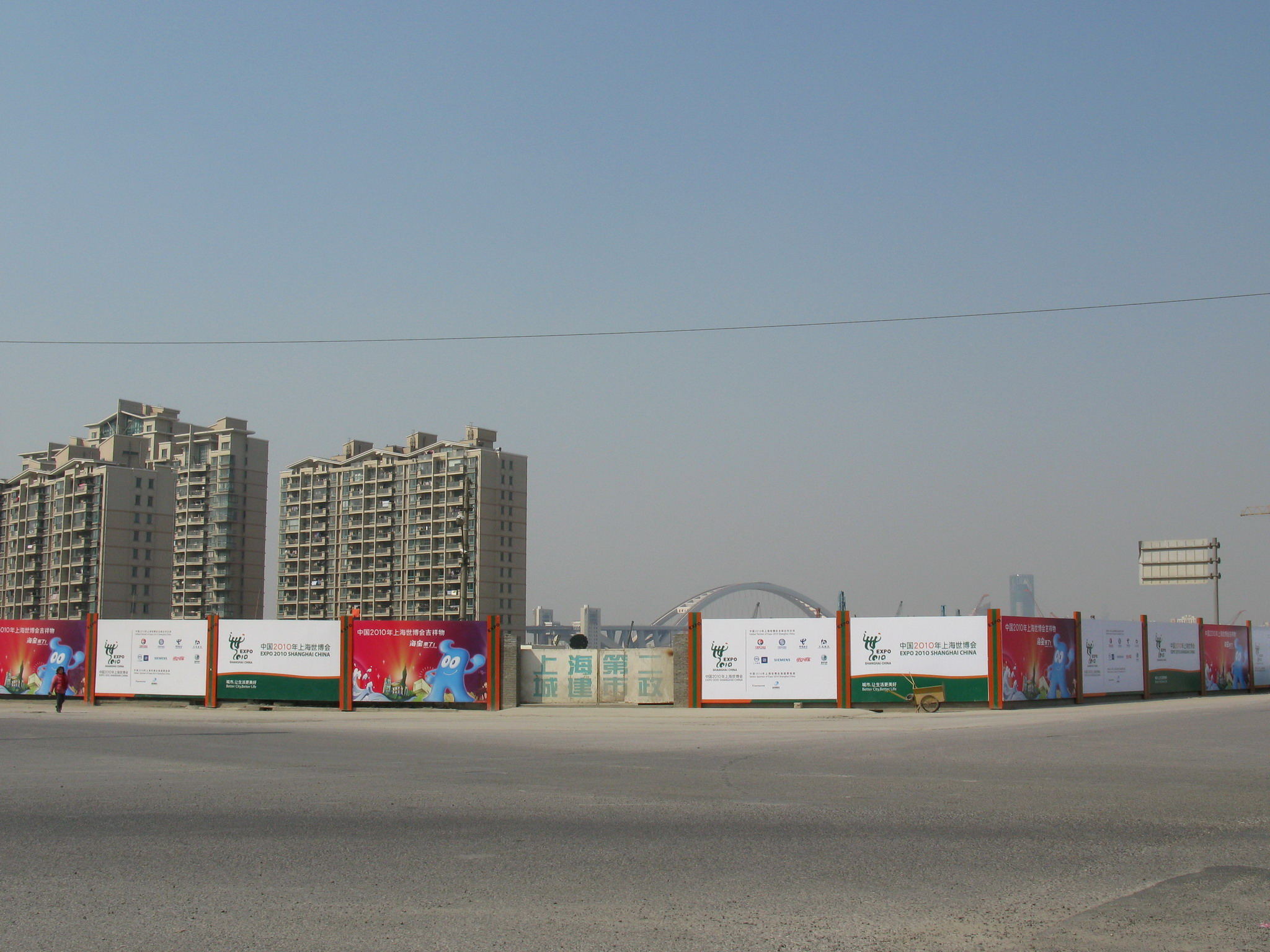 上南路耀华路 世博园工地 World Expo 2010 Construction Site at Shangnan Road Yaohua Road